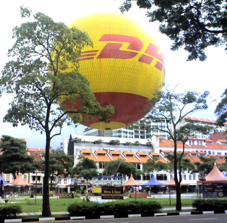 The DHL Balloon in Singapore run by tour organiser, DUCKtours